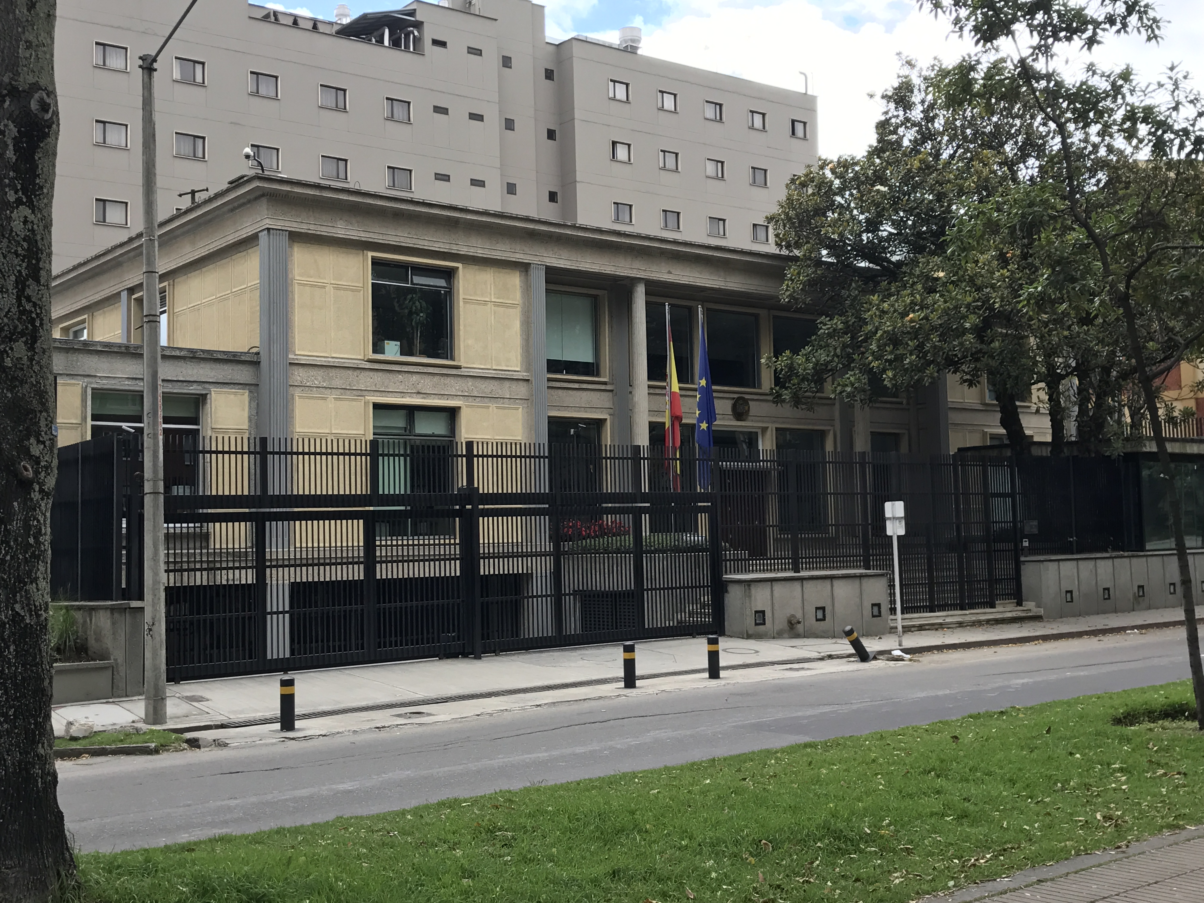 Embassy of Spain in Bogota, Colombia